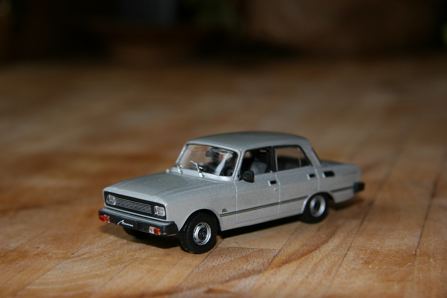 Moskvich 2140SL. Real car first in production in 1980. Model by DeAgostini, around 2010. Scale 1/43.